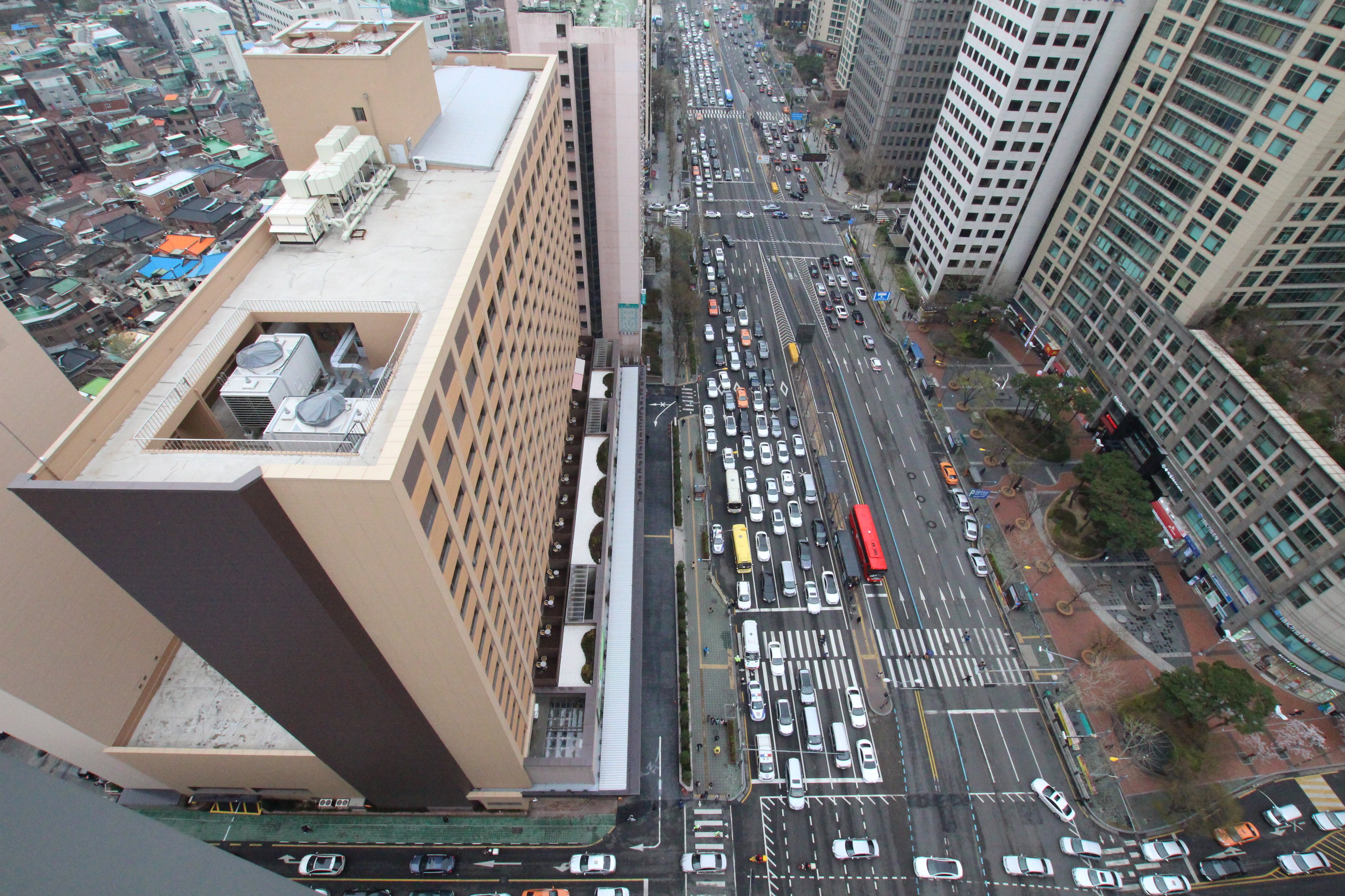 Dohwa-dong, Mapo-gu, Seoul, South Korea